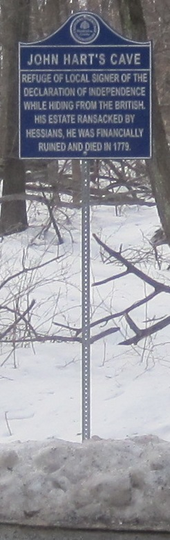 Historical information sign marking the cave of New Jersey politician John Hart — in The Sourlands region of western New Jersey. Location: Intersection of Zion Road and Lindbergh Road, in East Amwell Township.